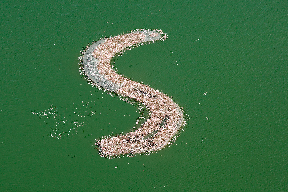 Aerial view of 2000 adult Lesser Flamingos, assembled on a specially constructed breeding island at Kamfers Dam, Kimberley, South Africa